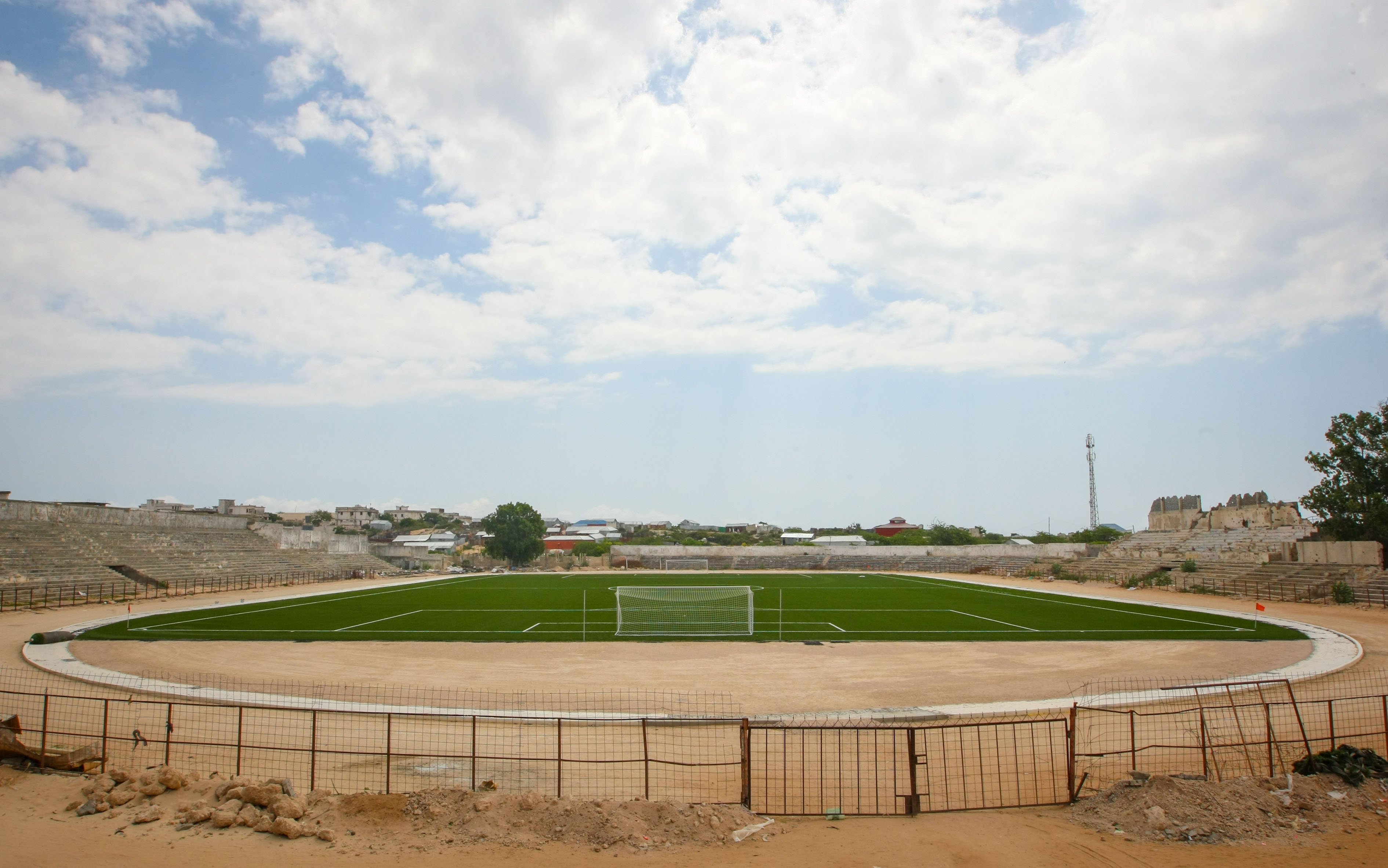 A view of Baanadir Stadium in the Abd-Aziz District of the Somali capital Mogadishu, which has recently been re-surfaced with a new artificial playing surface. Funded by FIFA, the Somali Football Federation has had the 7,500-capacity stadium re-turfed and will soon begin repair work on seats, parking and other facilities that are currently riddled with reminders of Somalia's war-ridden past. After two decades of near-constant conflict, Somalia is enjoying its longest period of peace and growing security since the Al-Qaeda-allied violent extremist group Al Shabaab was driven from Mogadishu in August 2011. Under the Shabaab's draconian rule, social pastimes and sports such as football were banned but residents of the city and elsewhere across Somalia in areas liberated by sustained operations by the Somali National Army (SNA) supported by troops of the African Union Mission in Somalia (AMISOM) are now enjoying their freedoms once again. On January 19, Africa’s top football teams will meet in South Africa to contest for the continent’s most prestigious football title - the African Nations Cup – and although Somalia has never taken part due to insecurity and the hitherto ban on the playing and watching of football by Al Shabaab, the sport is once more growing in obvious evidence across the city and experiencing a surging revival of fortunes and popularity. AU-UN IST PHOTO / STUART PRICE.